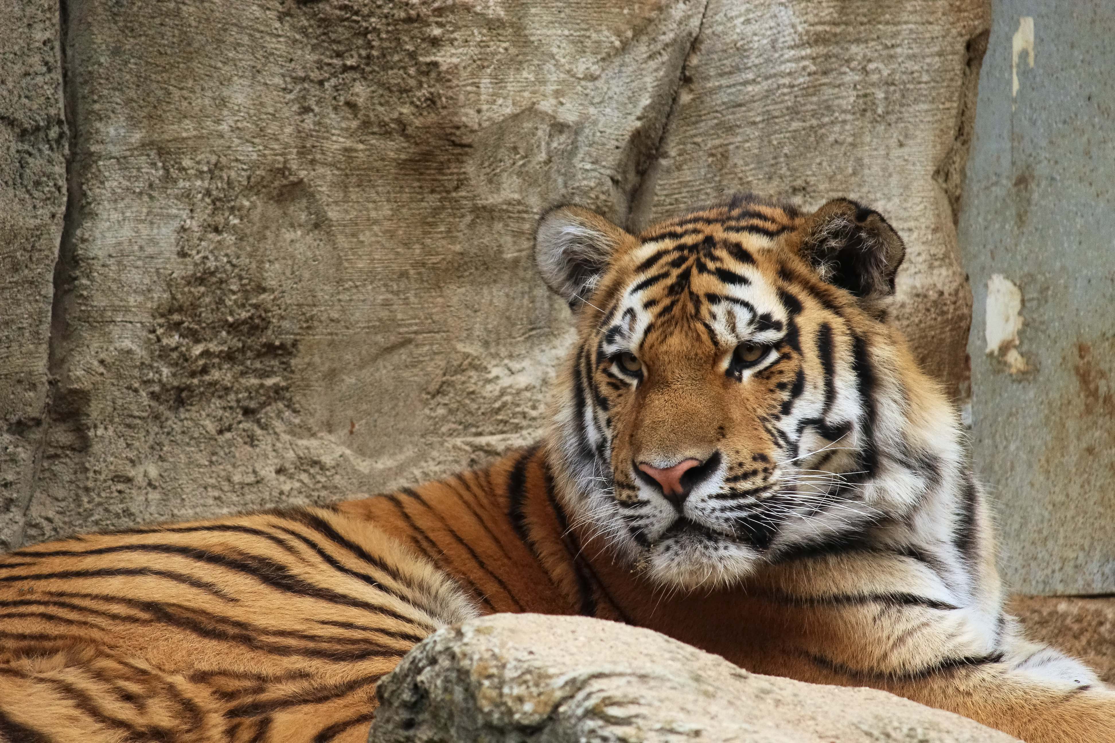 Juvenile Panthera tigris altaica.